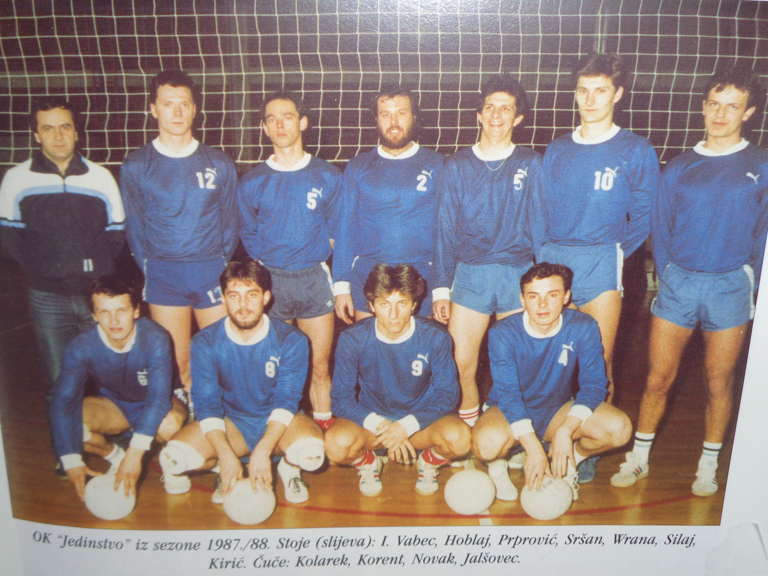 OK "Jedinstvo" volleyball team from 1987/1988, Čakovec, Croatia